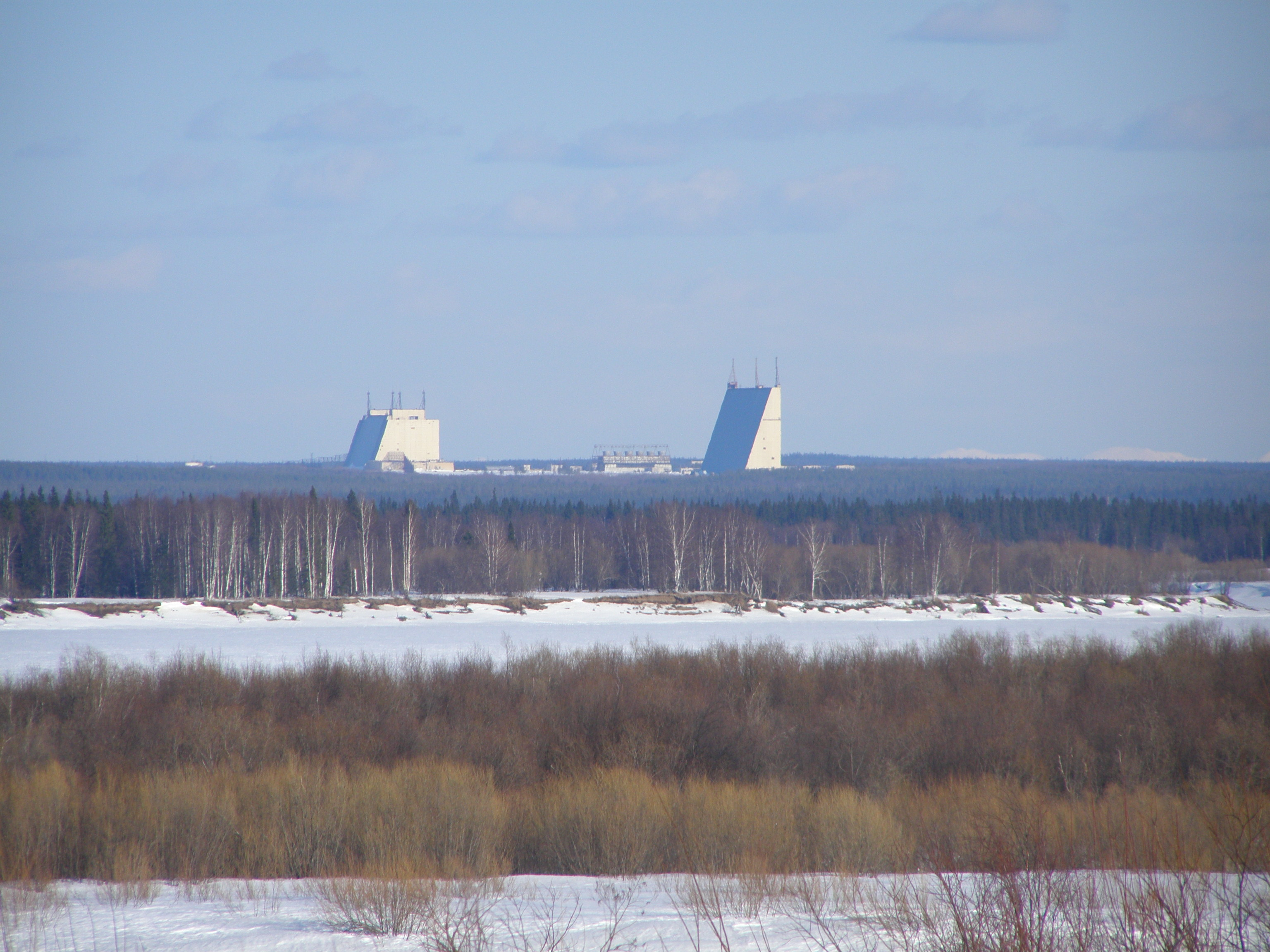 Uploaded to Panoramio as "Pechora Over-the-Horizon Early Warning Radar". Russian above the horizon radar station at Pechora in the Komi Republic. Daryal radar.